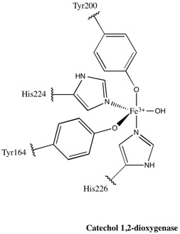 The non-heme iron(III) complex endows catechol 1,2-dioxygenase with the catalytic ability to oxidatively cleave catechol into cis,cis-muconic acid